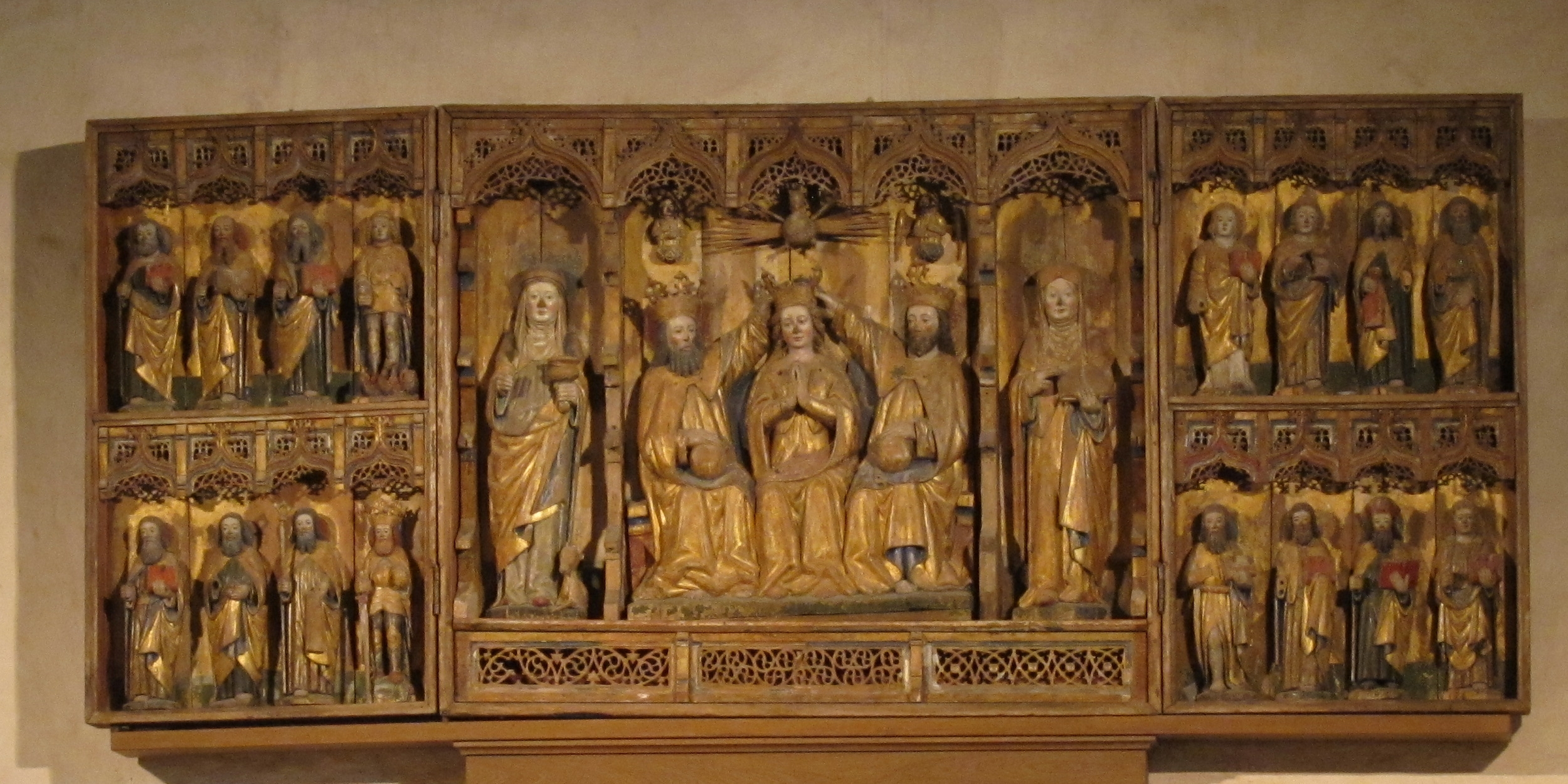 Church of Naantali in Naantali, Finland.